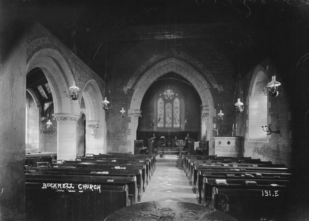 Inside St Mary's parish church, Bucknell, Shropshire, lookign east to the chancel